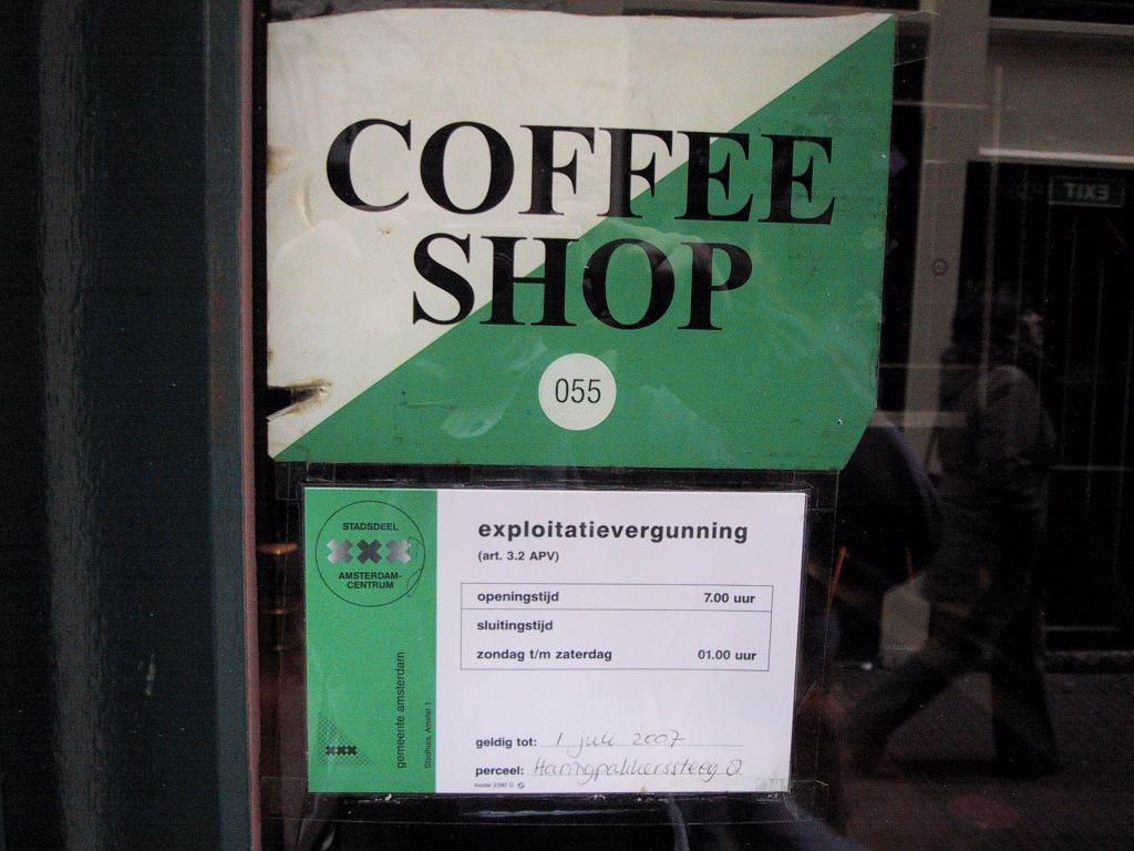 Me - 26/11/2005 English translation: exploitation permit opening time 7 am closing time sunday to saturday 1 am valid until: 1 july 2007 premises: Haringpakkerssteeg 8